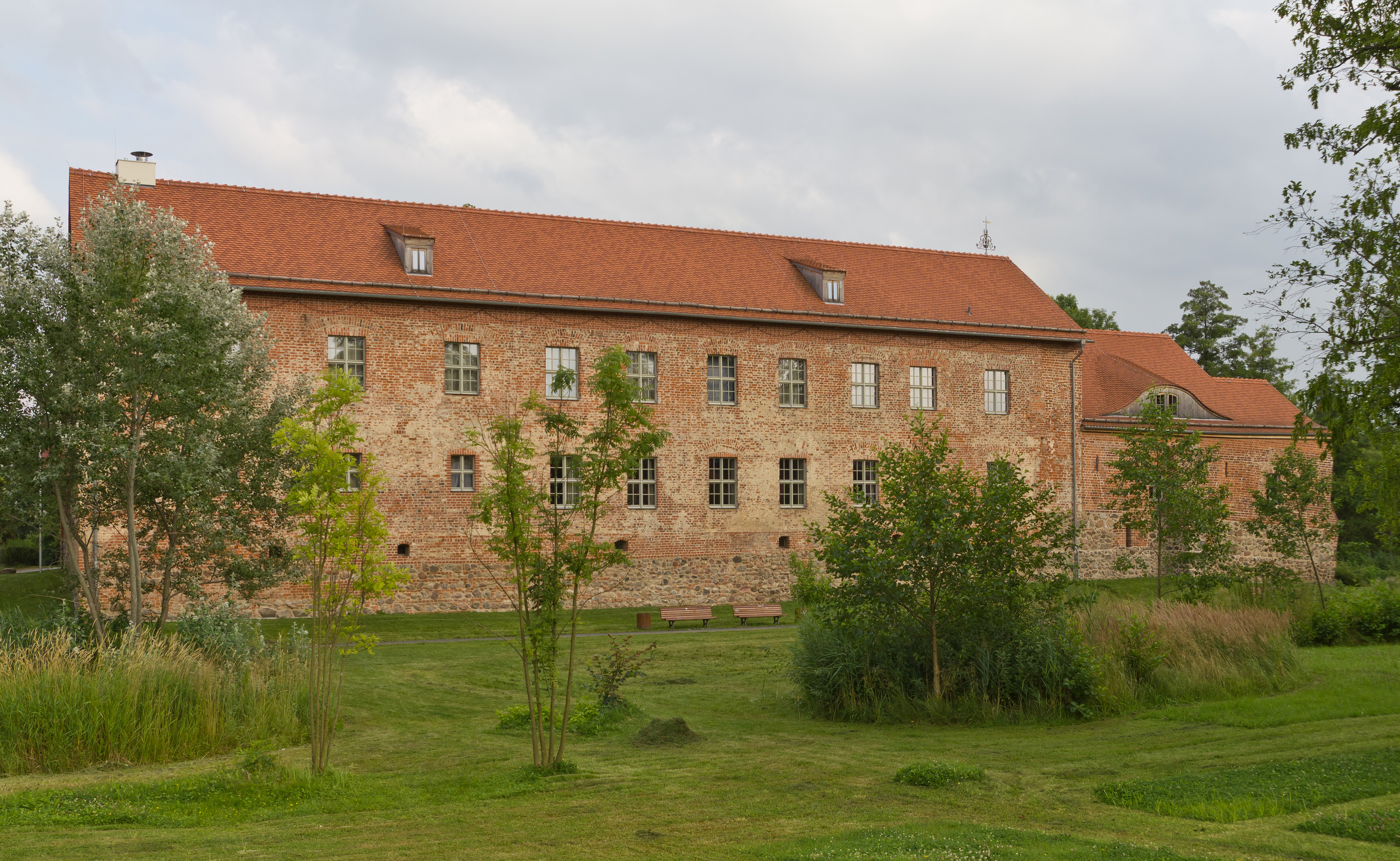 Castle in Storkow (Mark), Brandenburg, Germany